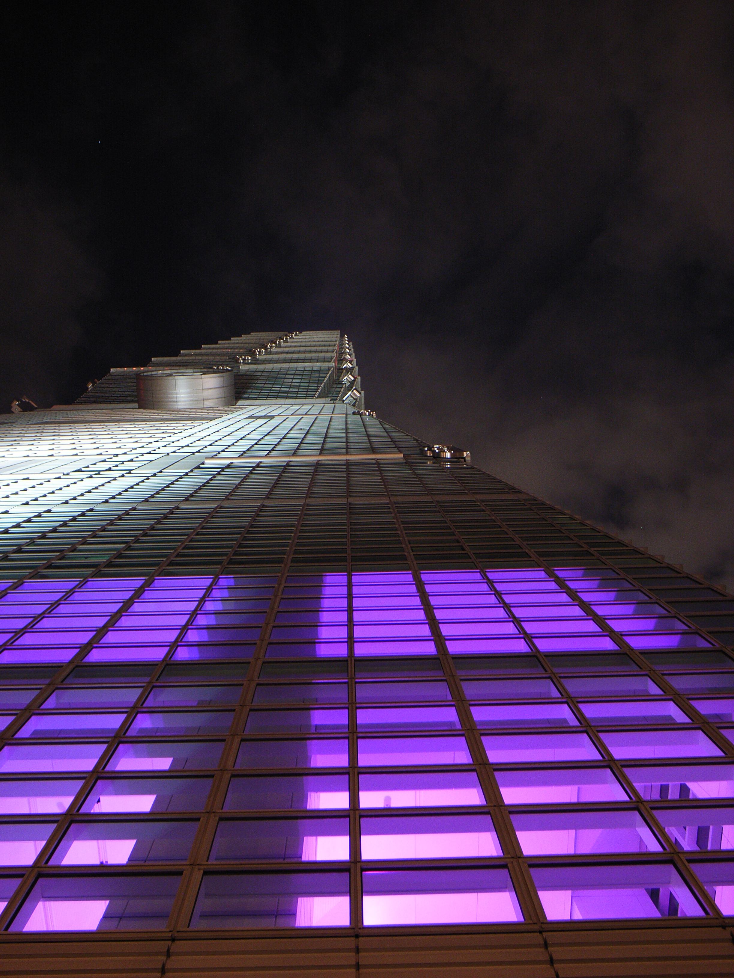 Thats 101 stories straight up - tallest building in the world (for the moment at least).